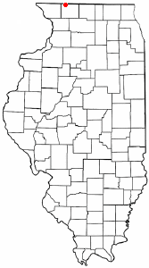 Category:Illinois city locator maps